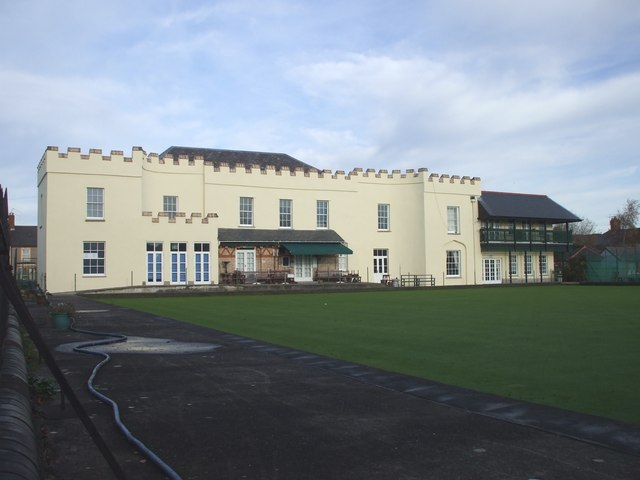 Mackintosh Sports Club, Cardiff